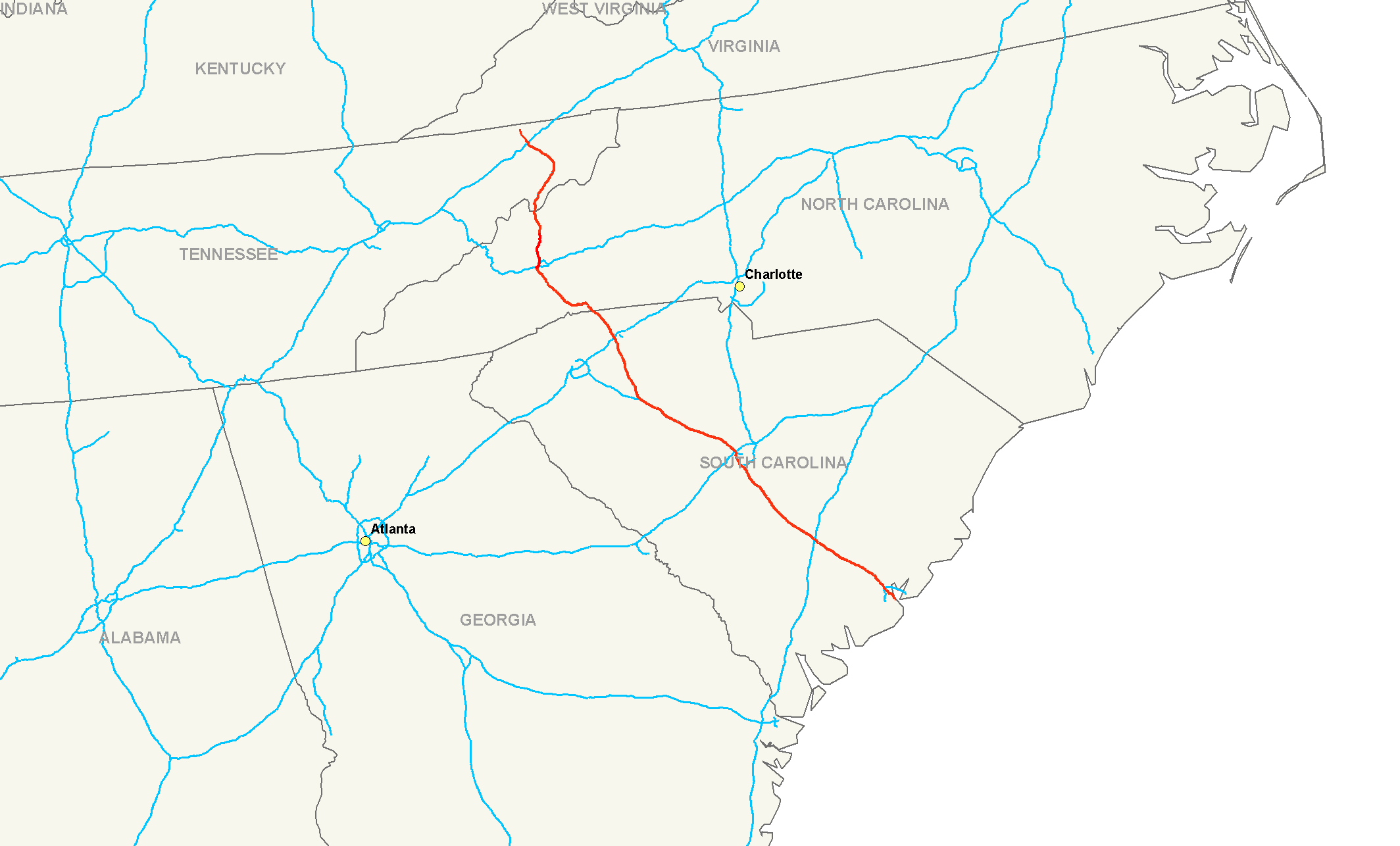 Map of Interstate 26